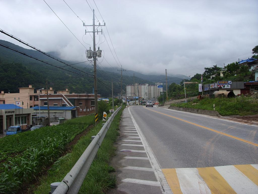 National Road #38 at Dogye, Samcheok